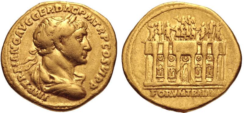 Trajan. AD 98-117. AV Aureus (19mm, 7.13 g, 7h). Rome mint. Struck circa AD 112-115. IMP TRAIANO AVG GER DAC P M TR P COS VI P P, laureate, draped, and cuirassed bust right, seen from behind Arcus Traiani (triumphal entrance) of the Forum Traiani: hexastyle building façade, surmounted by statue of facing chariot drawn by six horses with three figures to left and right; four statues within arches below; FORVM TRAIAN[A] in exergue. RIC II 255 var. (bust not draped or cuirassed); Calicó 1030. Near VF, a few marks.